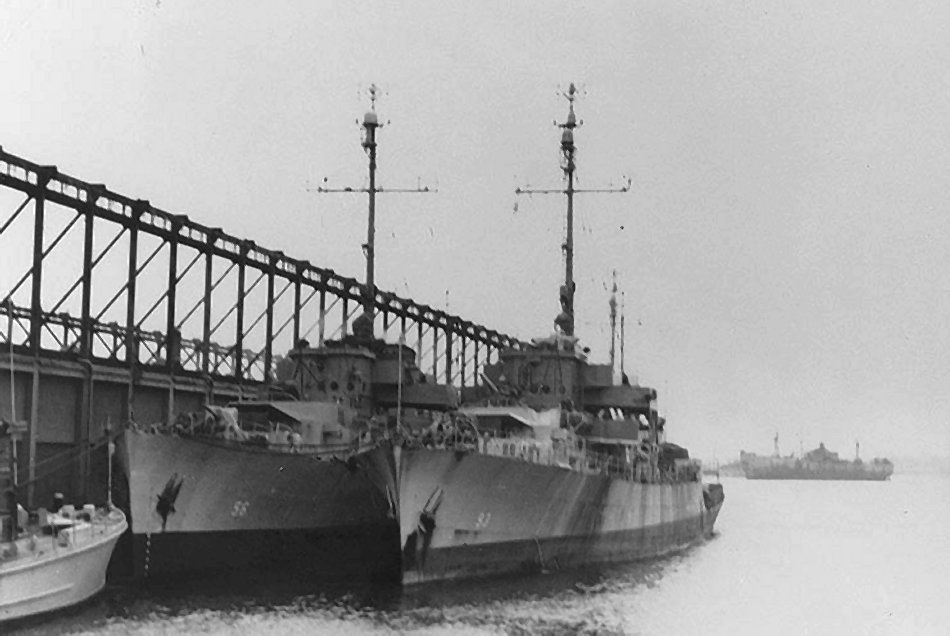 The U.S. Navy patrol frigates USS Covington (PF-56), left, and USS Lorain (PF-93) docked at New York City (USA) on 11 May 1946. The ships were on loan to the U.S. Coast Guard.